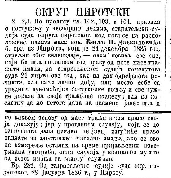 Announcement in the newspaper "Srpske novine" about the inheritance of Kosta Daskalov after his shooting, February 1886